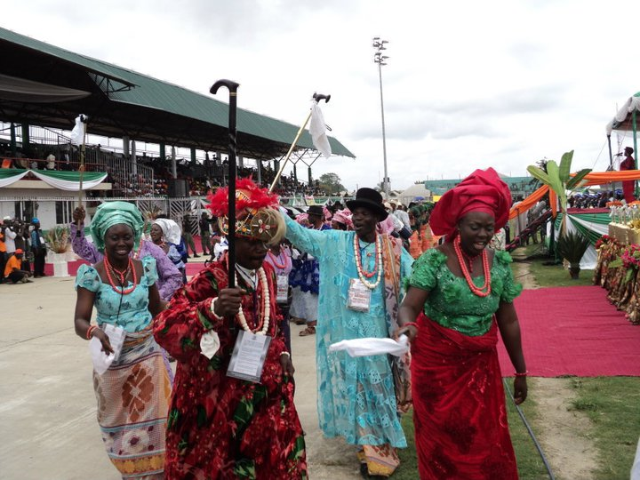 Pictures from the closing ceremony of National Festival of Arts and Culture (NAFEST) 2010 in Uyo, Akwa Ibom state Nigeria. This is an image of Cultural Fashion or Adornment from Nigeria